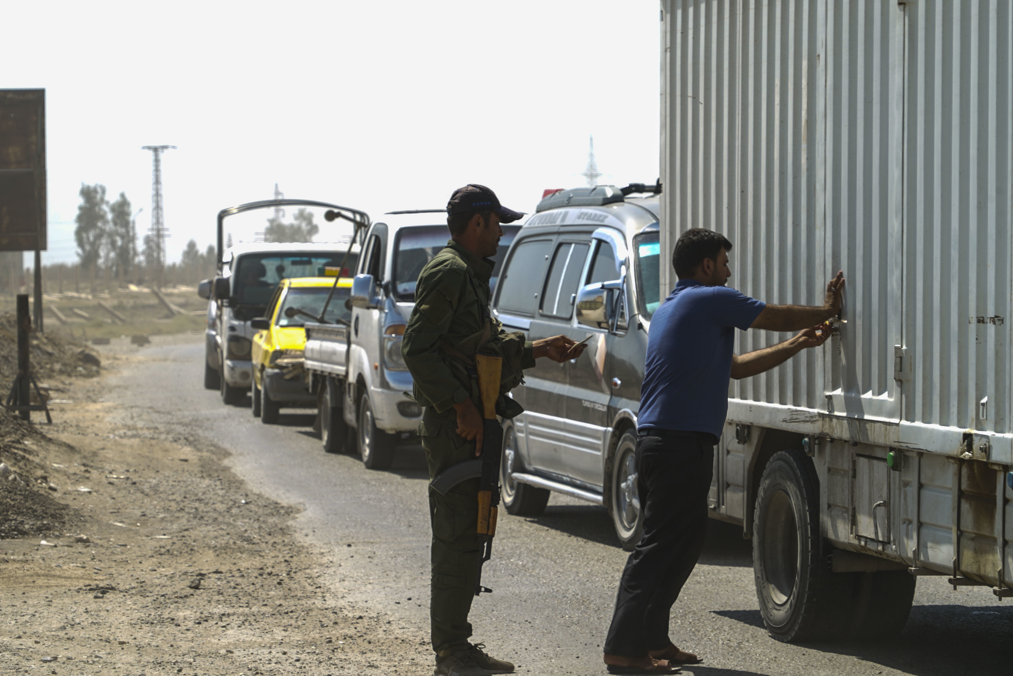 A Raqqah Internal Security Forces member waits to inspect the inside of a truck at a checkpoint in Raqqah, Syria, August 18, 2018. RISF members thoroughly check every person and vehicle that pass through checkpoints in order to maintain the security of the region.